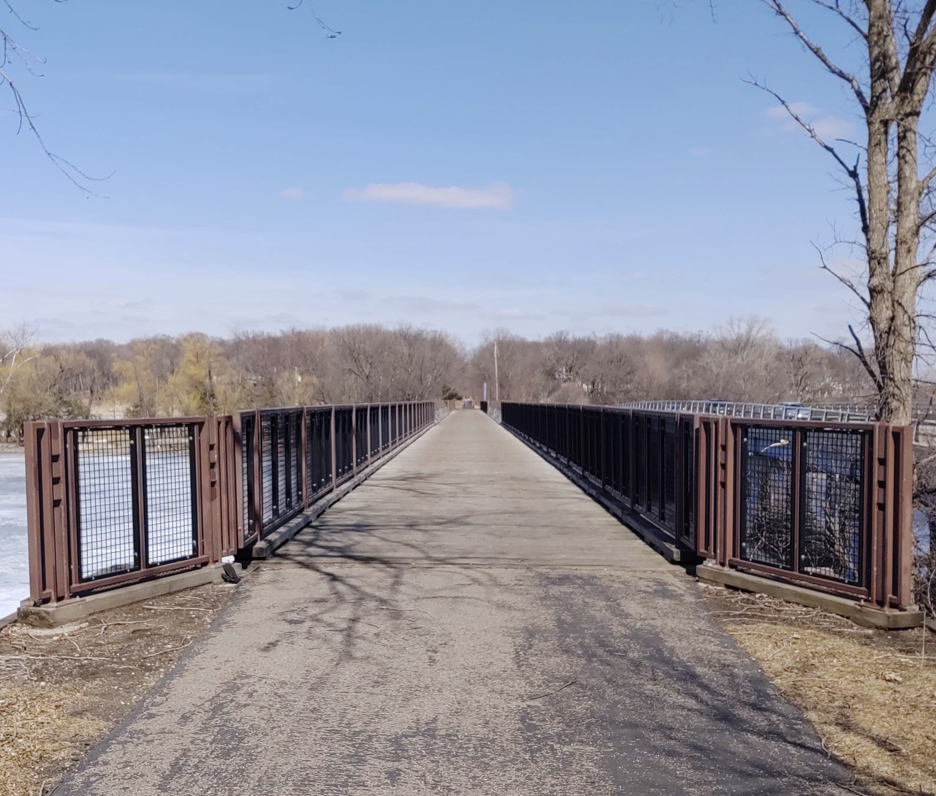 Looking north